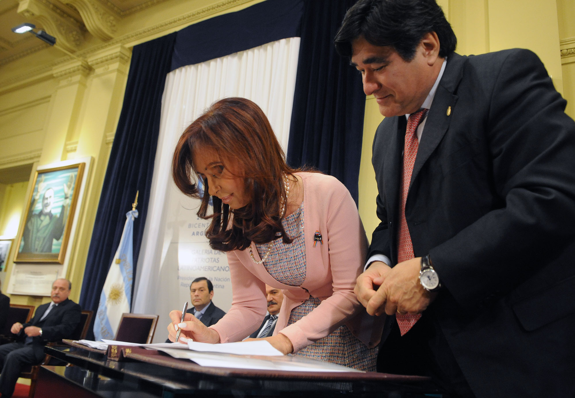 President Cristina Fernandez de Kirchner signed the decree wich promulgates the Egalitarian marriage law. At the right, the Presidential Legal and Technical Secretary, Carlos Zanini.